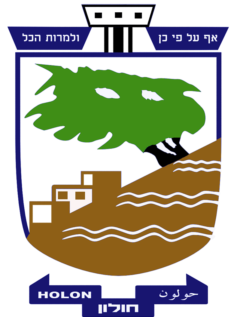 Coat of Arms of the city of Holon